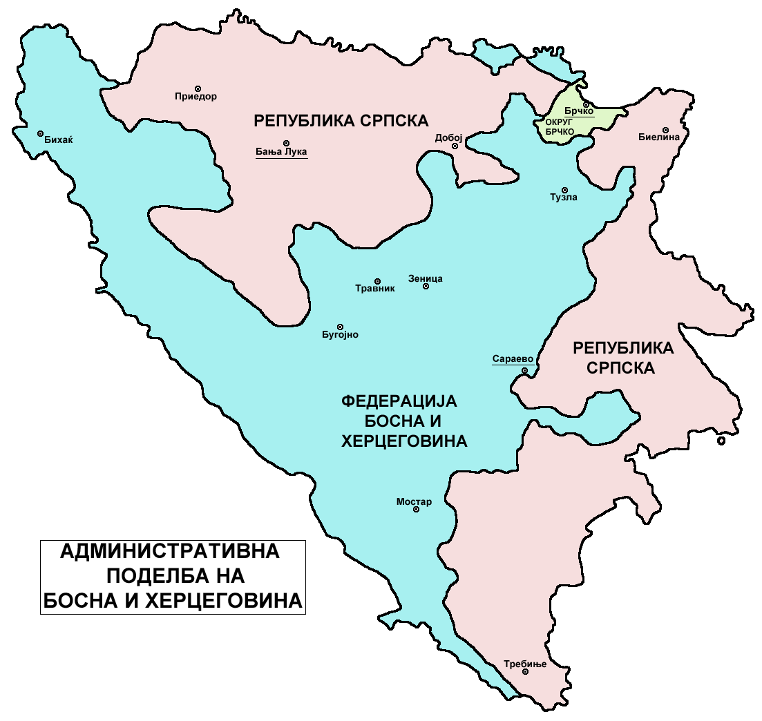 Translated map of BIH on Macedonian language.